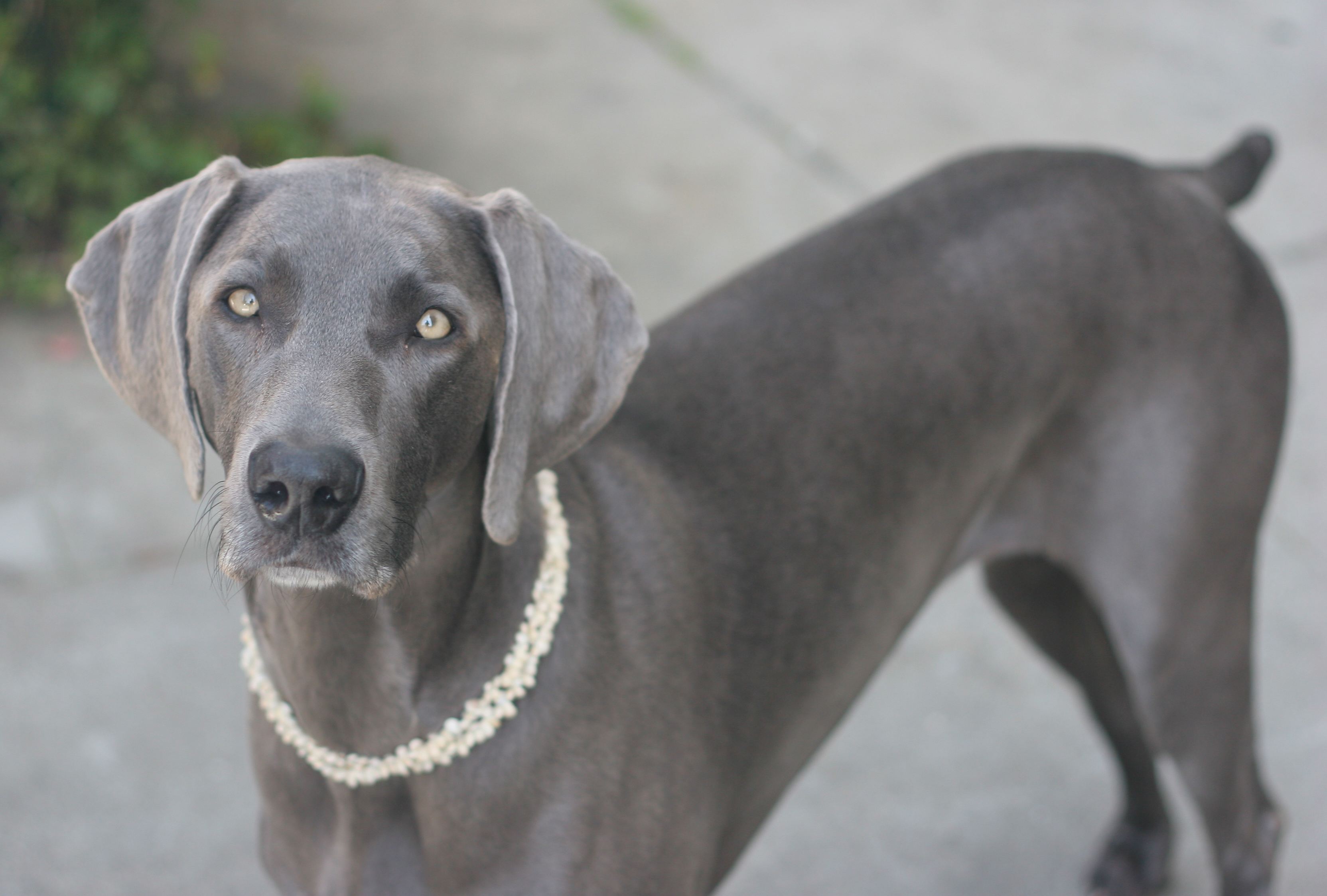 A female Weimaraner named Maya Lou.